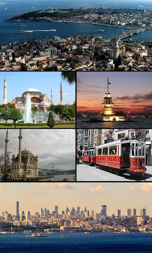 Collage of Istanbul (improved version of Istanbul collage 5g.jpg.)